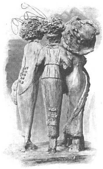 Gossips by Ethel Myers - Magazine Illustration